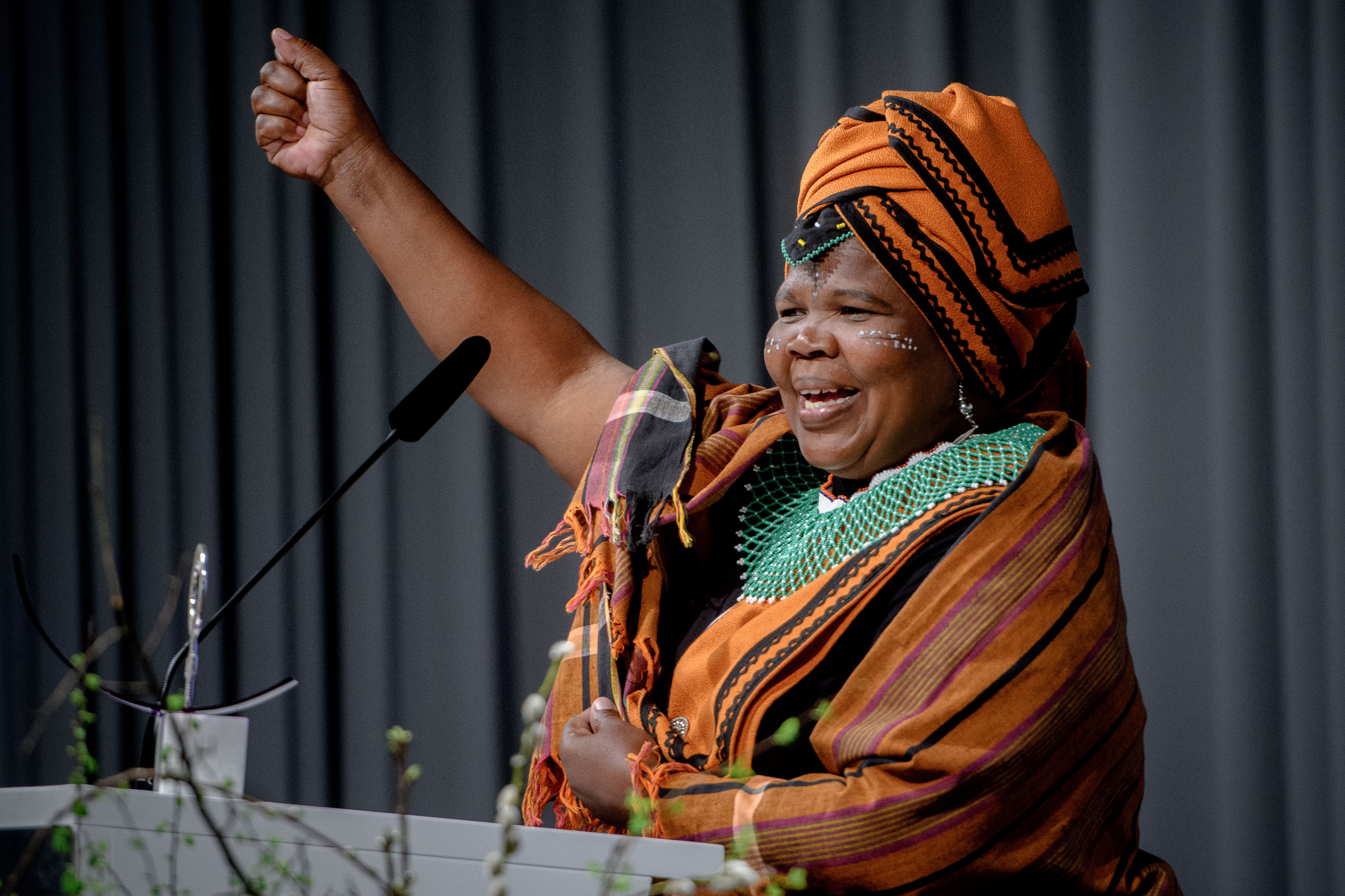 Nomarussia Bonase (Human rights activist, South Africa) Foto: stephan-roehl.de